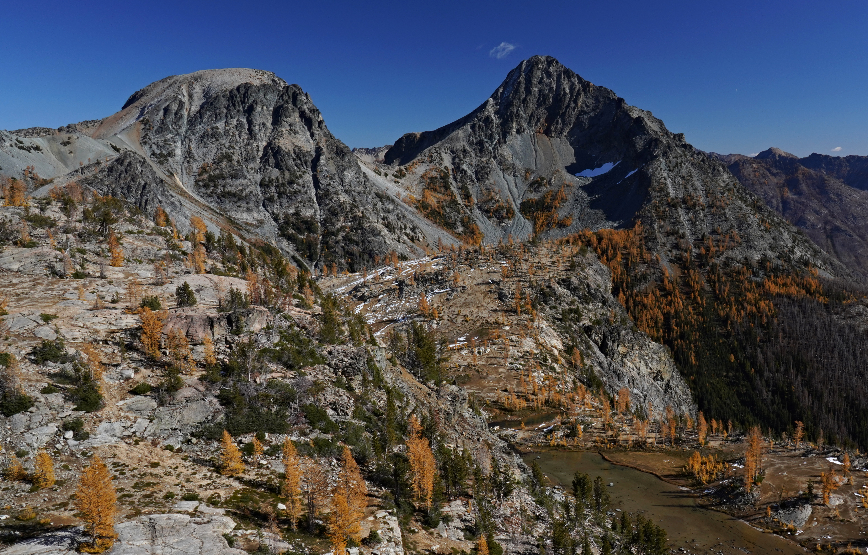 Spectacle Buttes seen from west